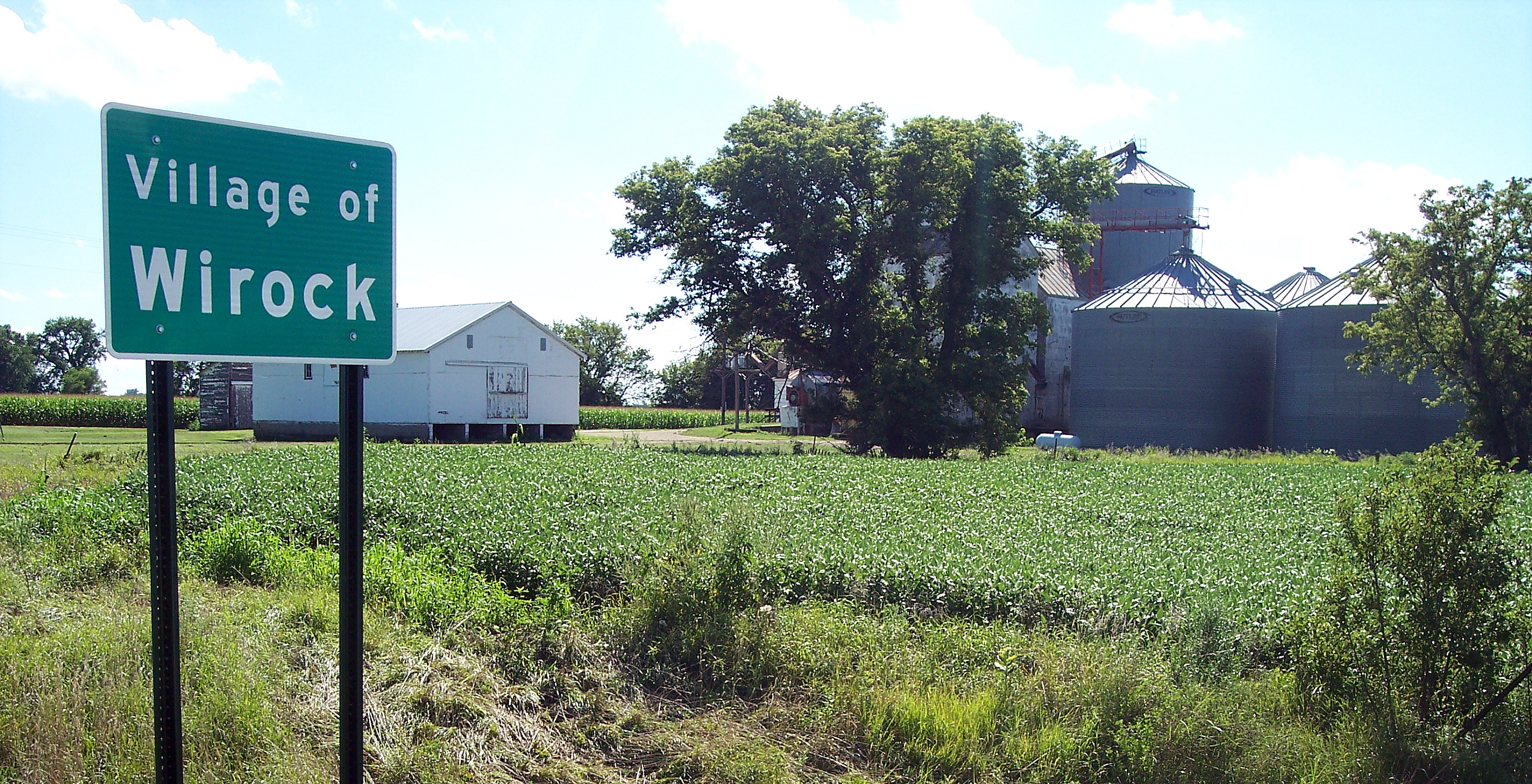 Wirock MN